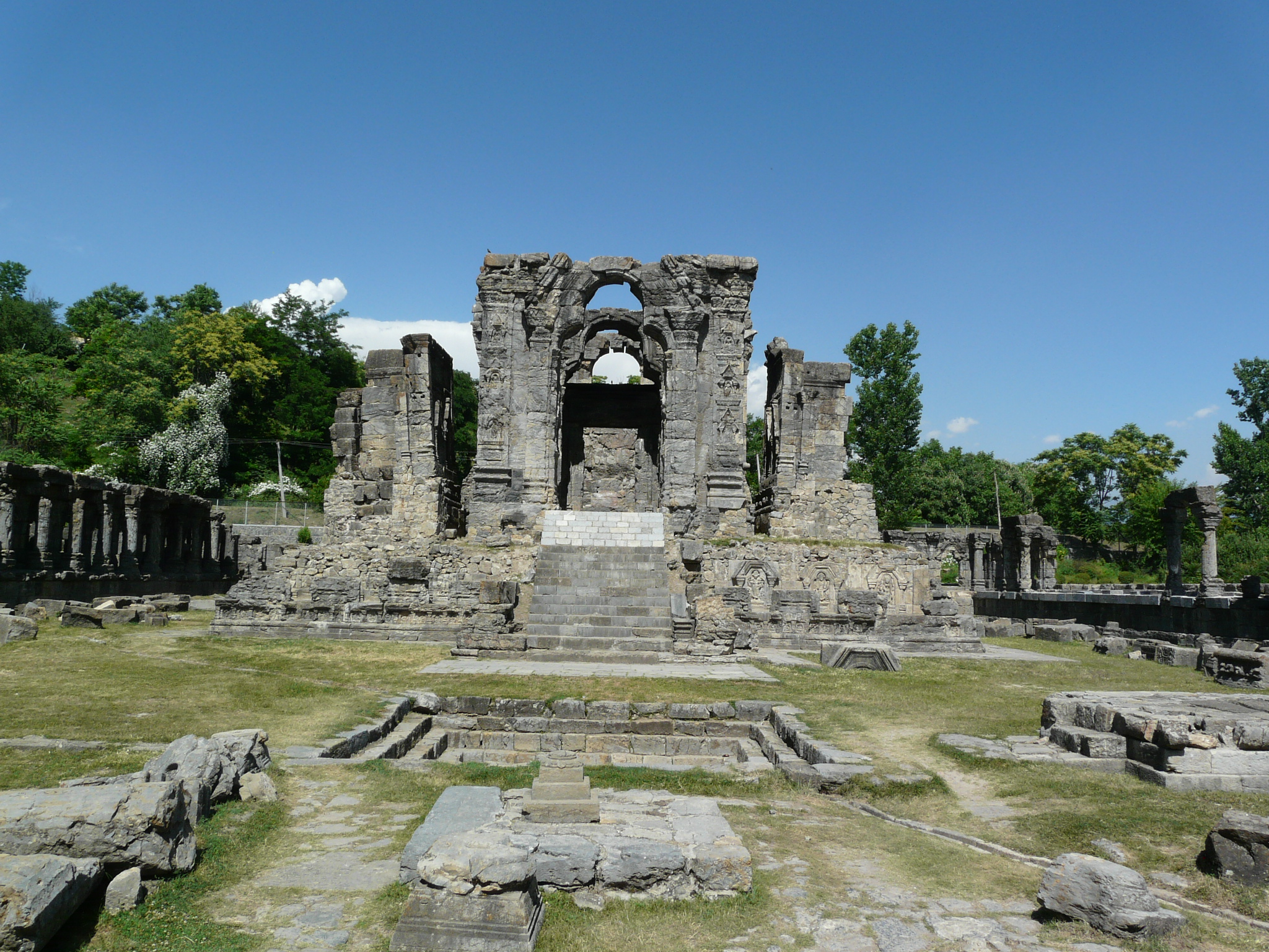 Temple enclosure Sun Temple, Martand, Jammu and Kashmir, India